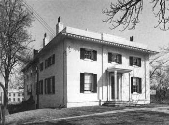 A picture of William Howard Taft's house taken by the National Park Service, located on the NPS website